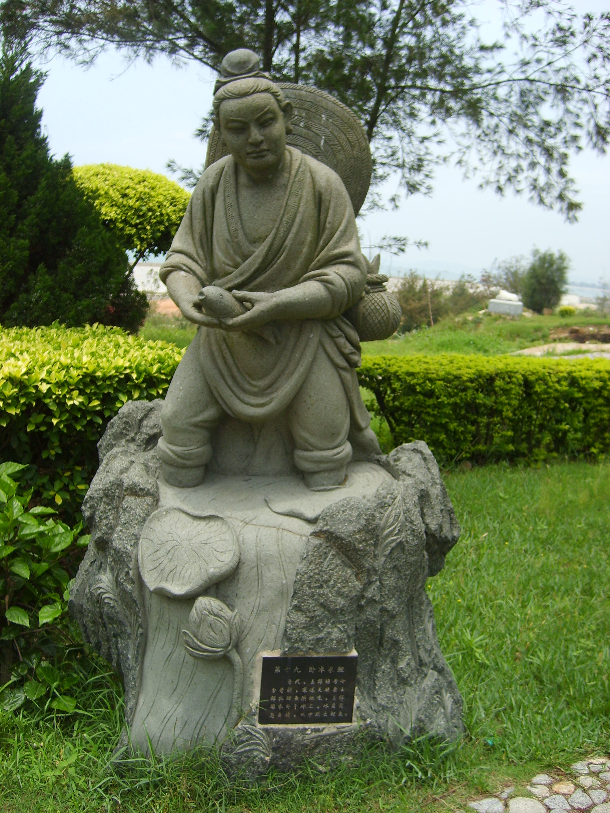 The Twenty-four Filial Exemplars - No. 19